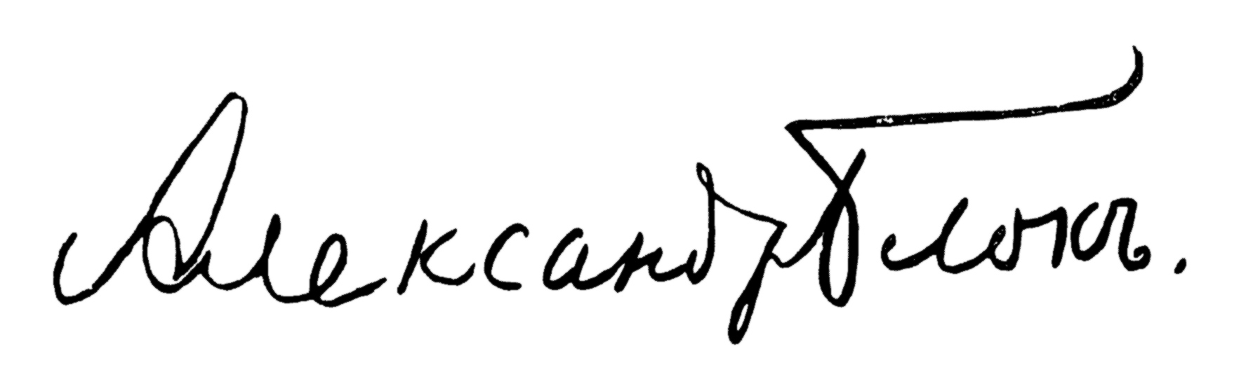 Russian poet Alexander Blok (dead in 1921) signature.